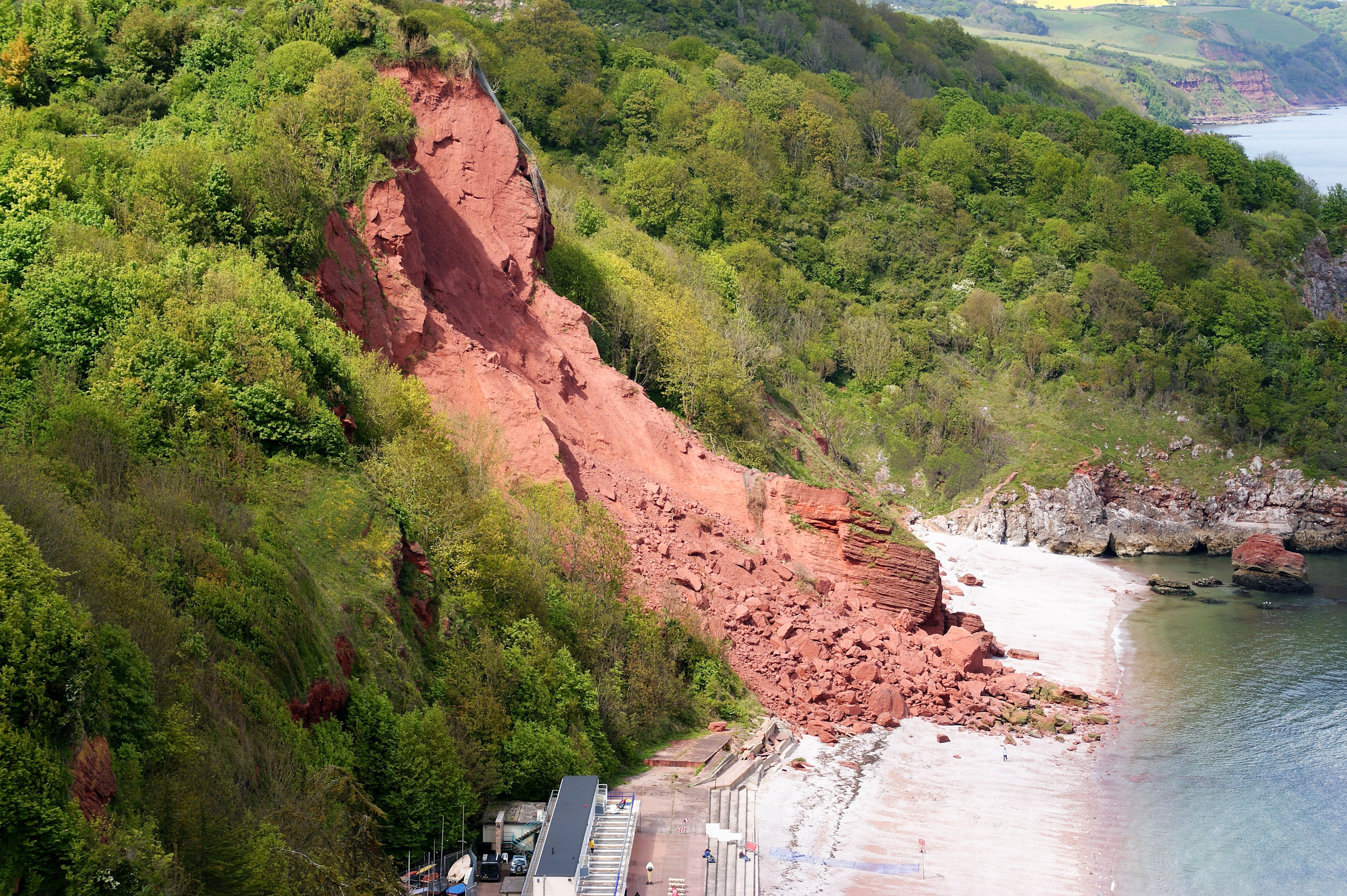 Oddicombe Beach in Devon, UK showing a large area of rockslide which occurred in February 2010.